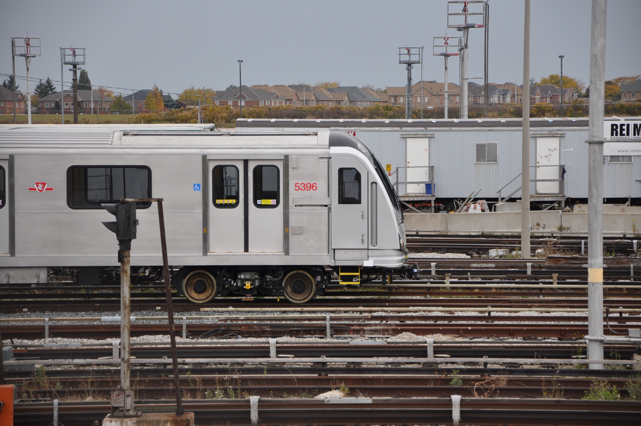 The cab area of the first Toronto Rocket subway train to be delivered to Wilson Yard.